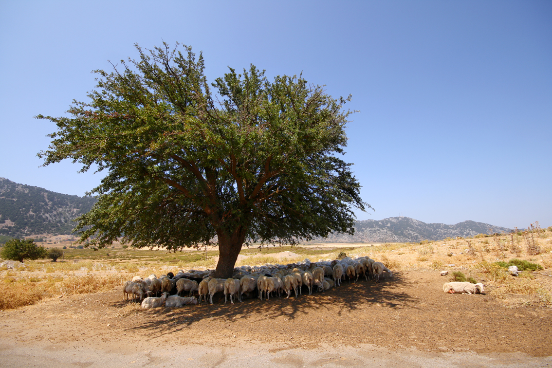 Sheep resting under a tree in Greece, Crete. Aug 2013